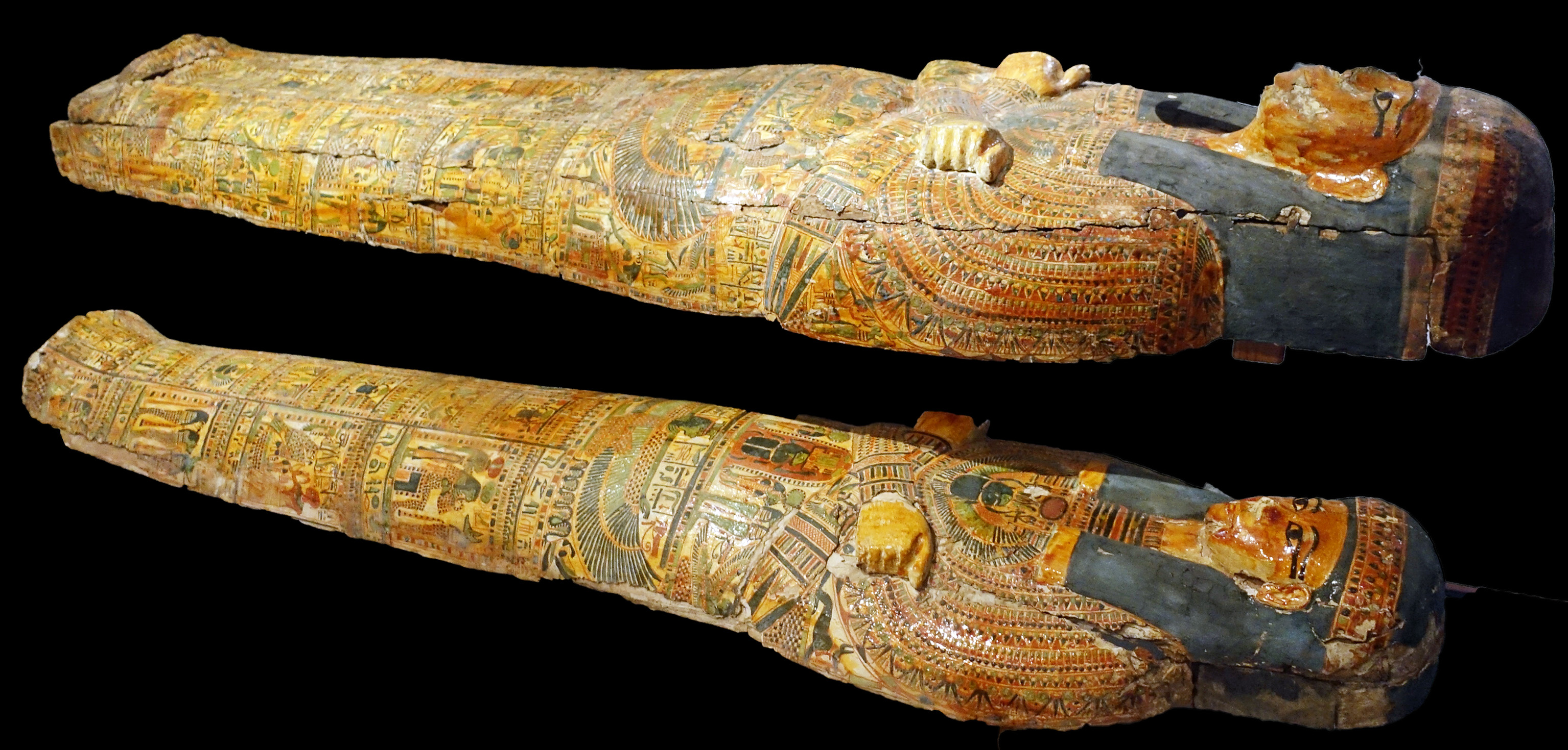 Mummy board of coffin in Bristol City Museum and Art Gallery.